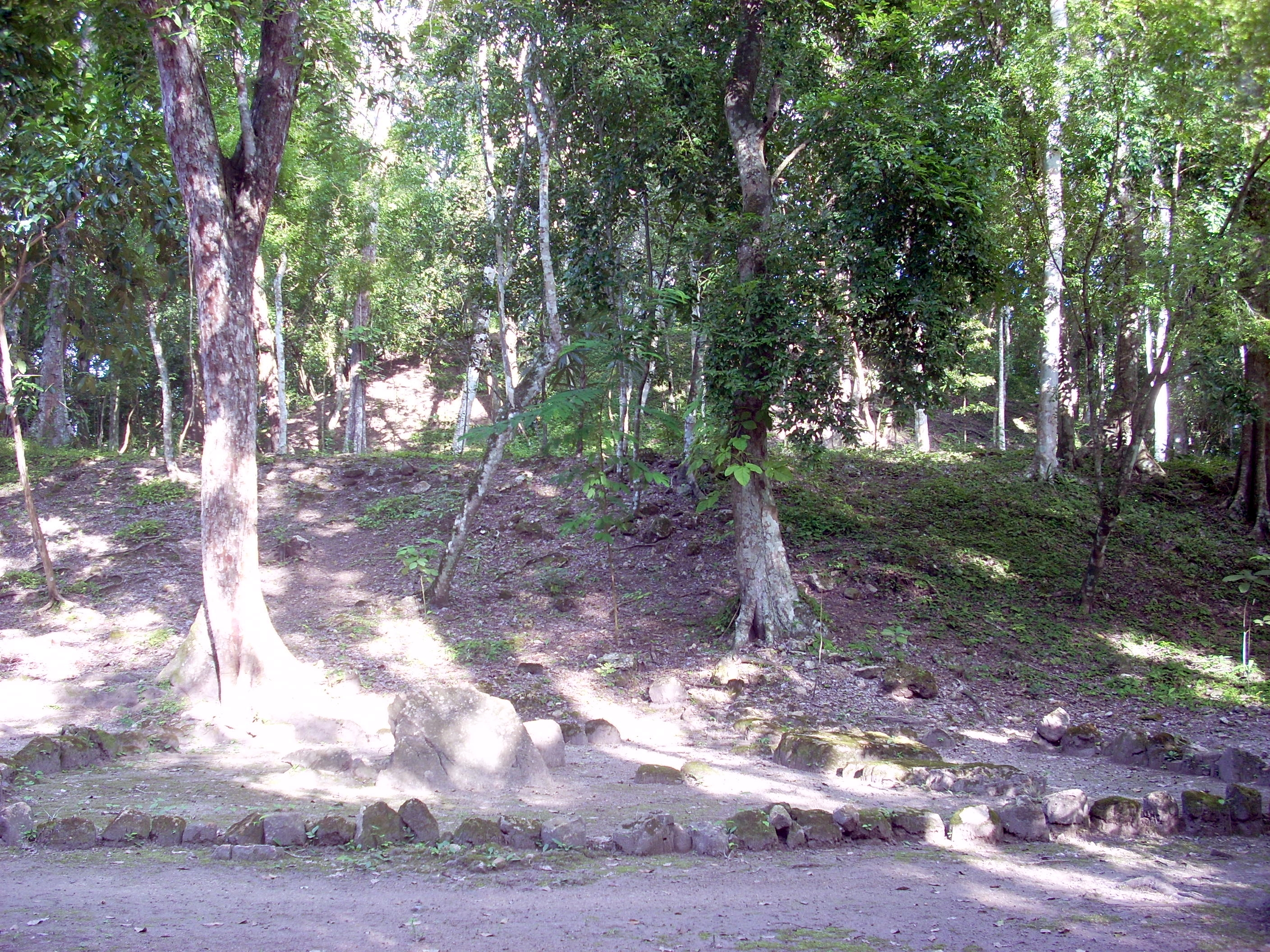 Unexcavated ceremonial architecture by the Main Plaza. Ixlu, Peten, Guatemala.